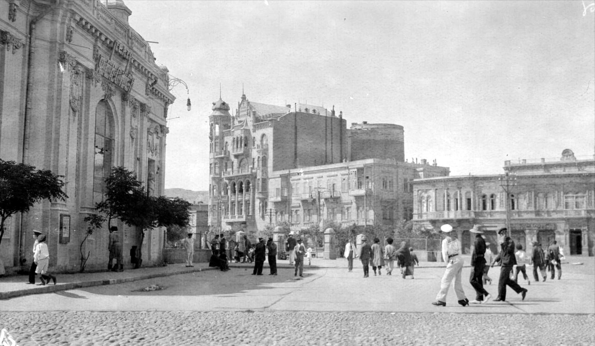 Street scene. Baku.